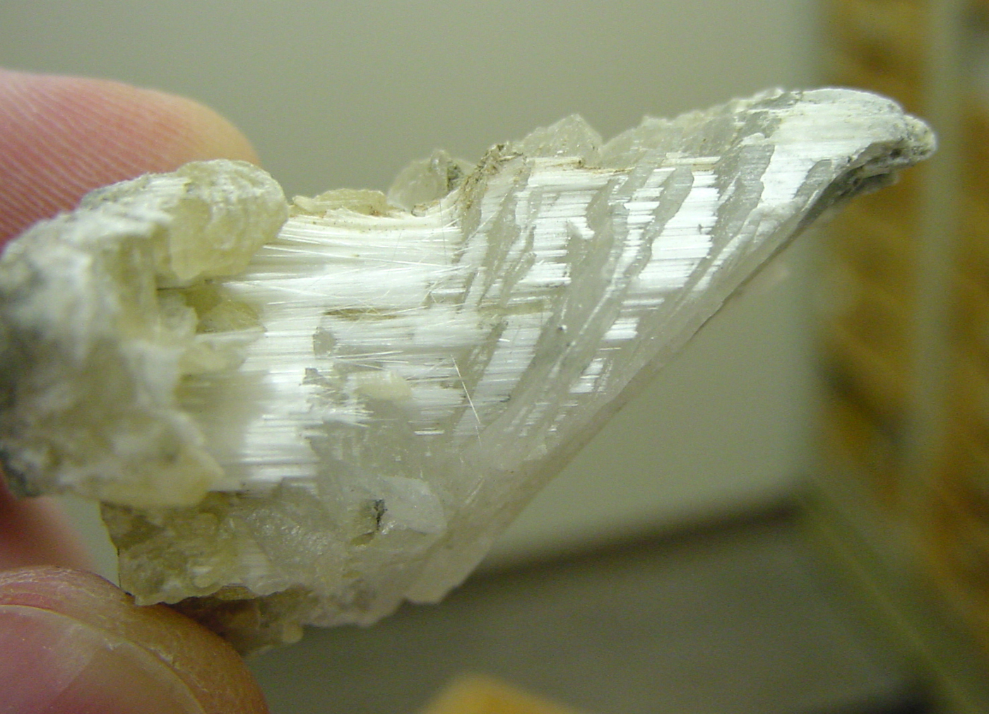 Ulexite. Fingers for scale. Mineral collection of Brigham Young University Department of Geology, Provo, Utah. BYU index 8-2083